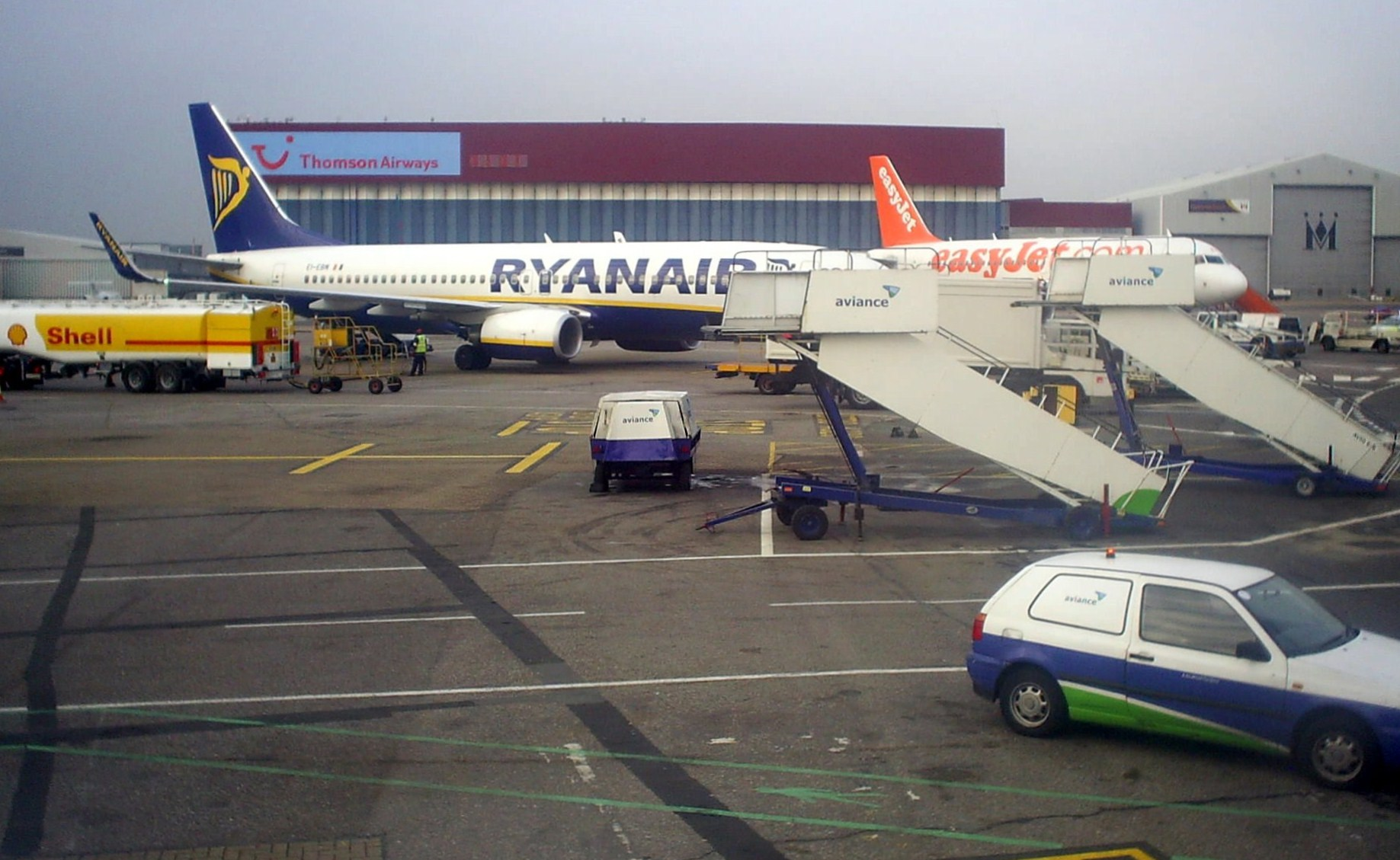 Two aircraft of the low-cost airlines Ryanair and Easyjet.